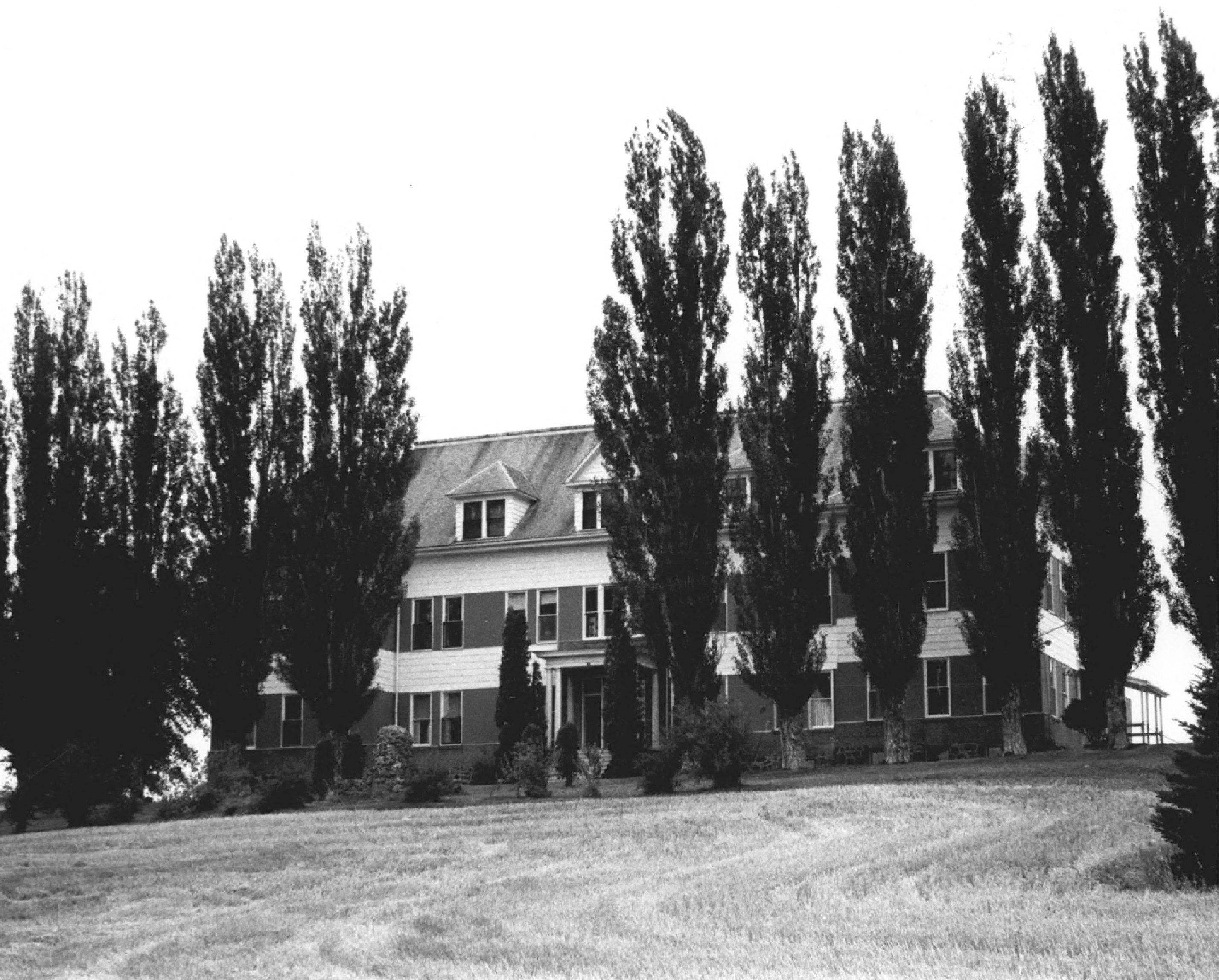 The historic school building of the Coeur d'Alene Mission of the Sacred Heart (built ca. 1900), formerly located in De Smet, Idaho, United States, is listed on the US National Register of Historic Places. The school building was destroyed by fire in 2011.